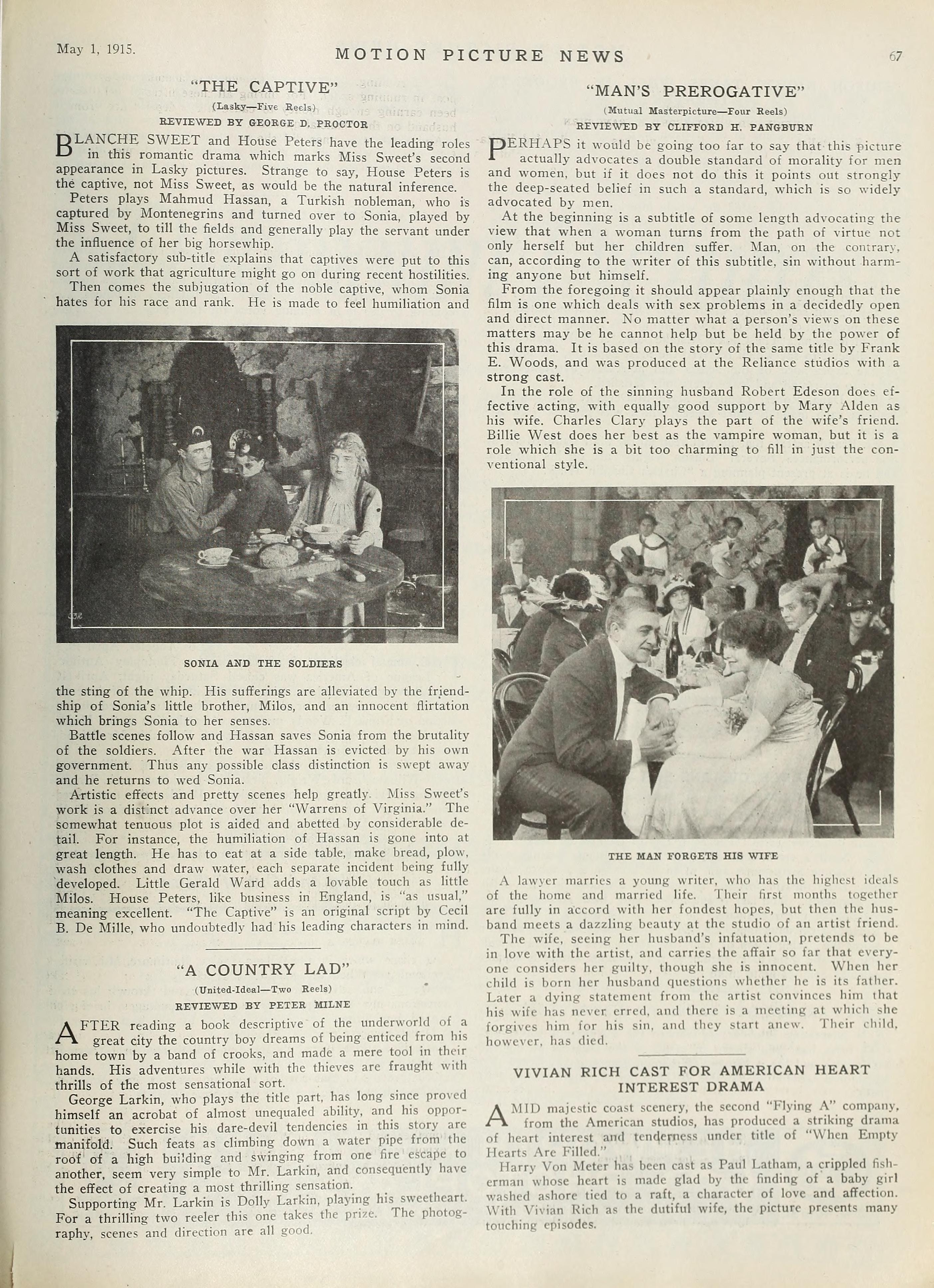 "The Captive" Newspaper Article